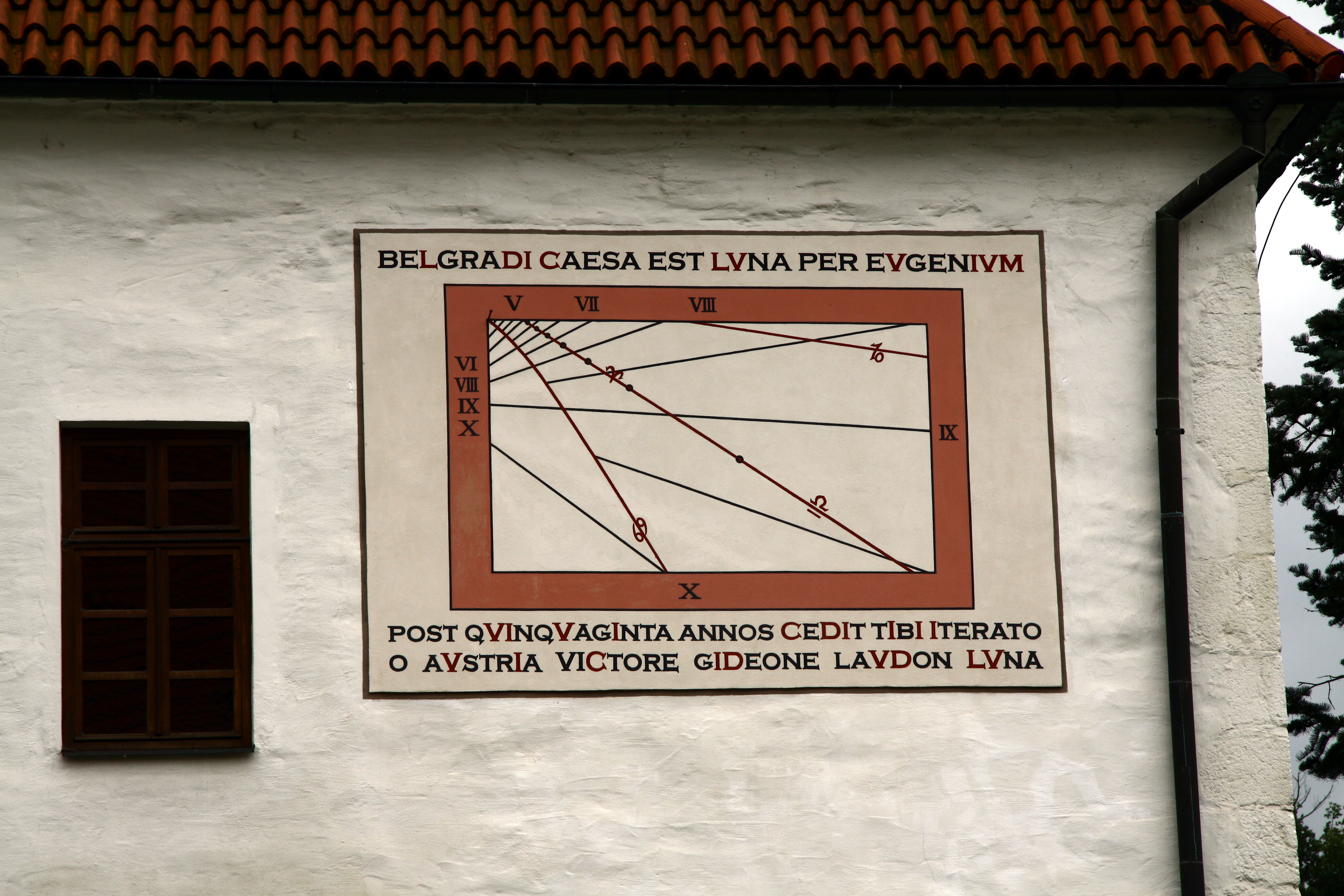 Milevsko Monastery in town Milevsko, Písek District, Czech Republic chronogramy: 50 + 500 + 1 + 100 + 50 + 5 + 5 + 1 + 5 + 1000 = 1717 5 + 1 + 5 + 1 + 100 + 500 + 1 + 1 + 1 + 1 + 5 + 1 + 5 + 1 + 100 + 1 + 500 + 5 + 500 + 50 + 5 = 1789